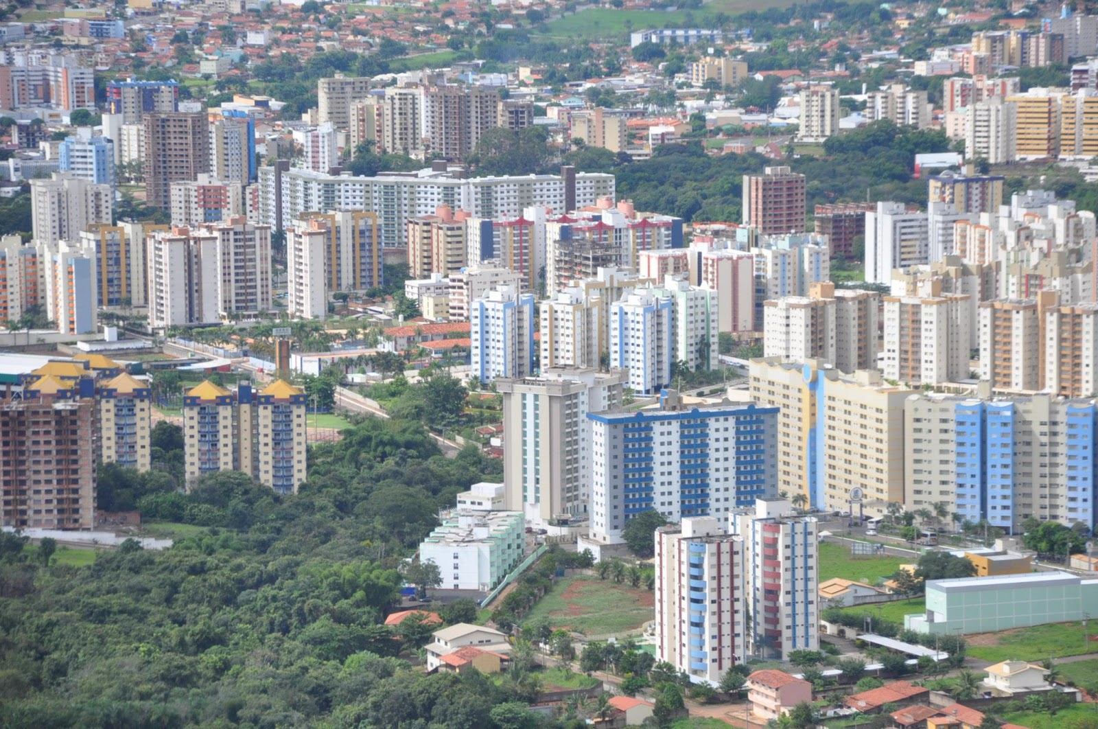 Vista aérea da zona turística